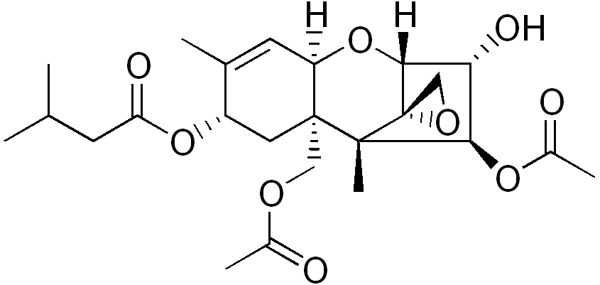 chemical structure of T-2 mycotoxin (Fusariotoxin T 2, Insariotoxin, Mycotoxin T 2, NSC 138780)